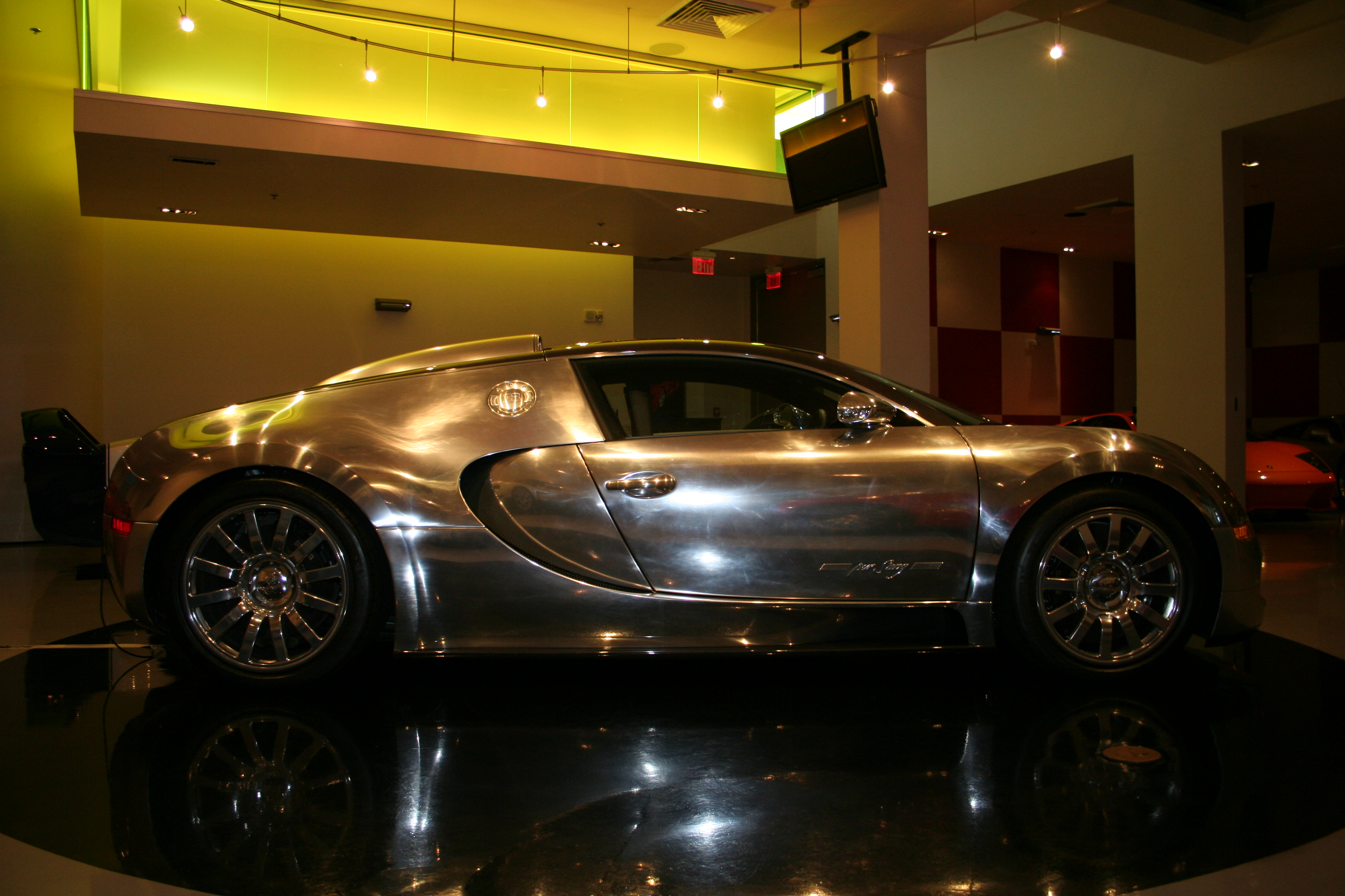 Photo taken in Orlando, FL.